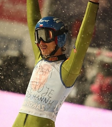 Maciej Kot during Adam's Bull's Eye on 26 March 2011 in Zakopane.